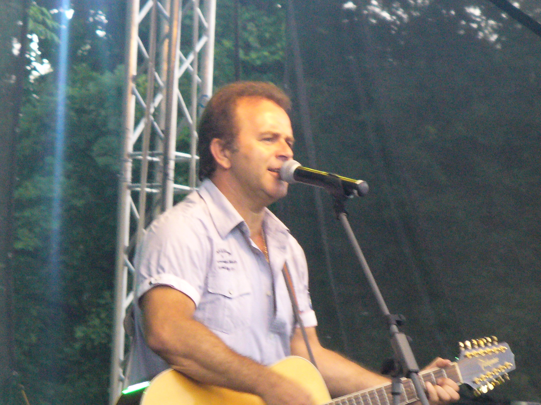 Czech singer Jakub Smolík.